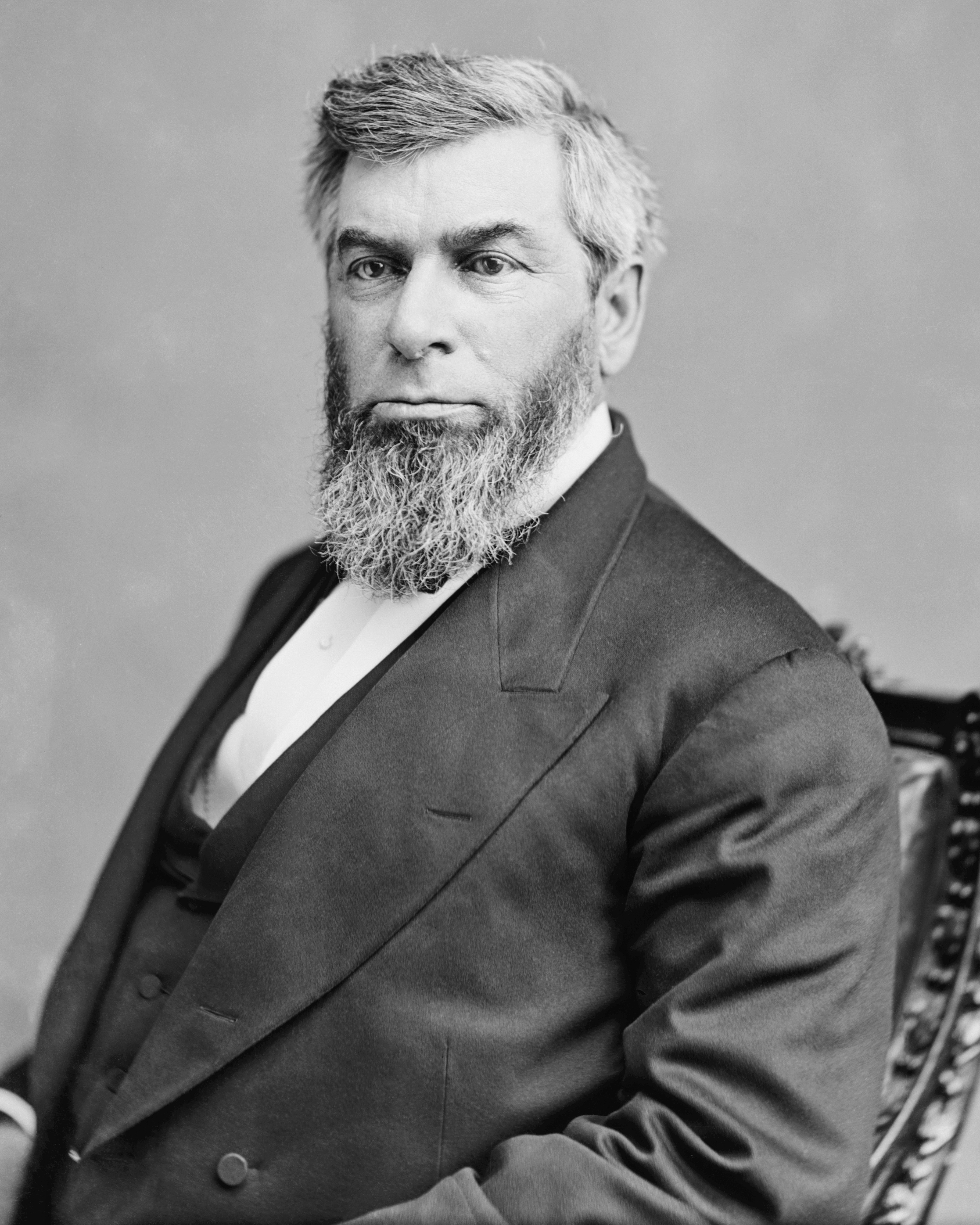 Chief Justice of the United States Morrison Waite. Image taken sometime between 1870 and 1880.